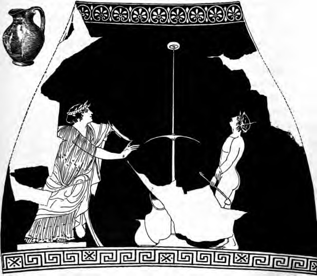 Die Spiele der Griechen und Römer (1887), p, 100 Author: Wilhelm Richter Publisher: E. A. Seemann Year: 1887 Possible copyright status: NOT_IN_COPYRIGHT Language: German Digitizing sponsor: Google Book contributor: University of Michigan Collection: americana